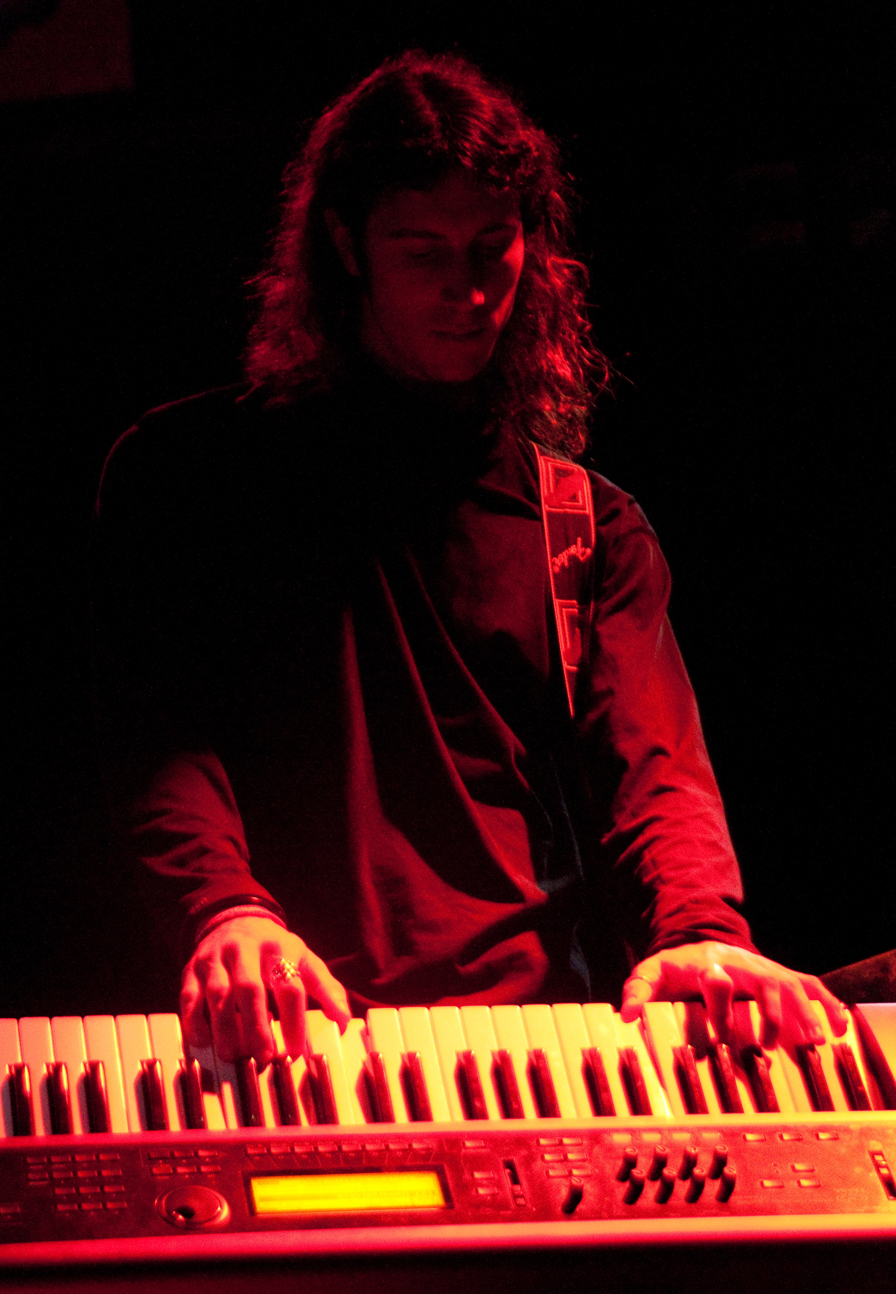 Joe Atlan playing keyboards on stage in March, 2010.